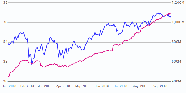 2018 Year to Date SPMD Line Chart as of 19, Sep 18 with Market Cap